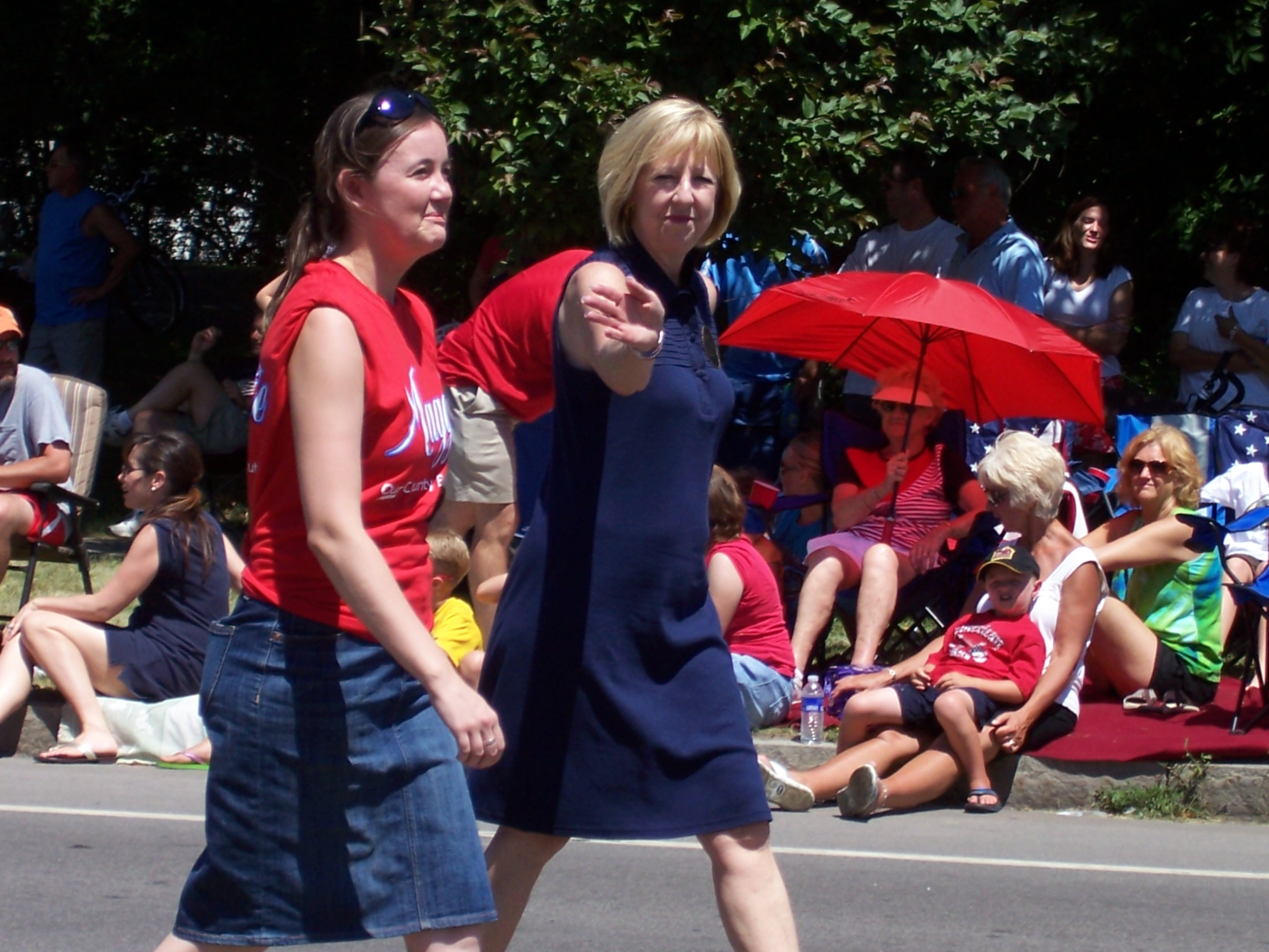 Maggie Brooks marching in the 2011 Irondequoit, New York Independence Day parade